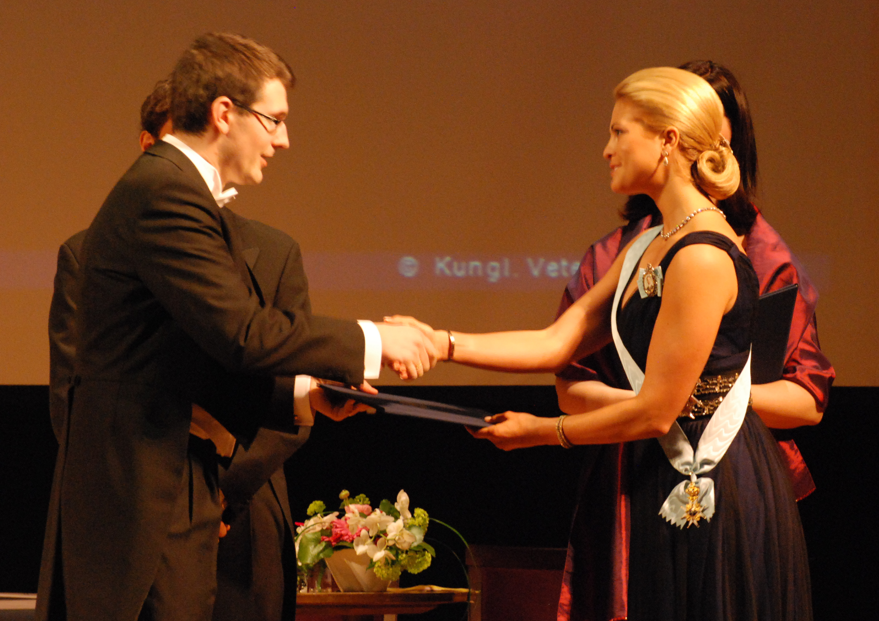 Ceremonial Meeting of the Royal Swedish Academy of Sciences: award ceremony of the Göran Gustafsson prize 2010: Princess Madeleine awards the price to Johan Elf